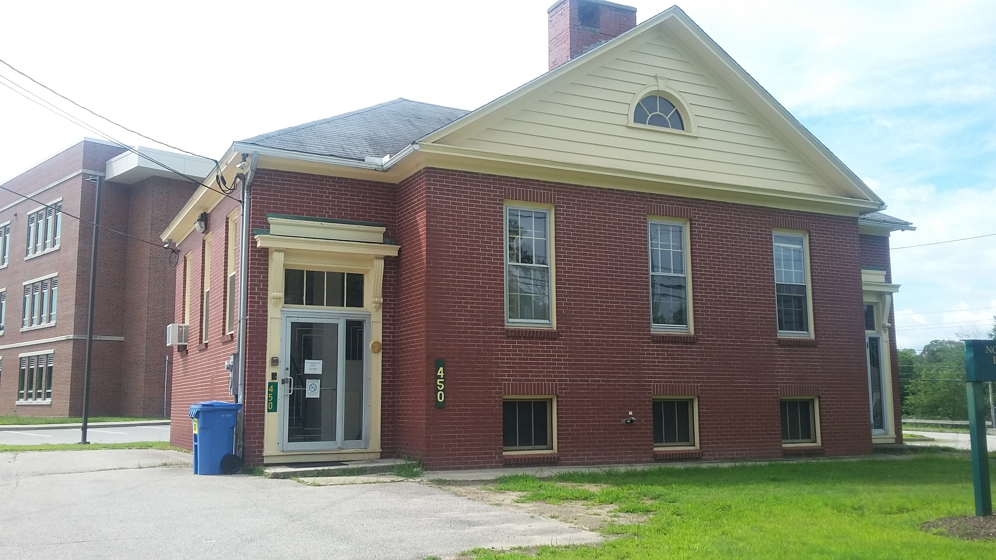 North Smithfield School Department and former school Rhode Island